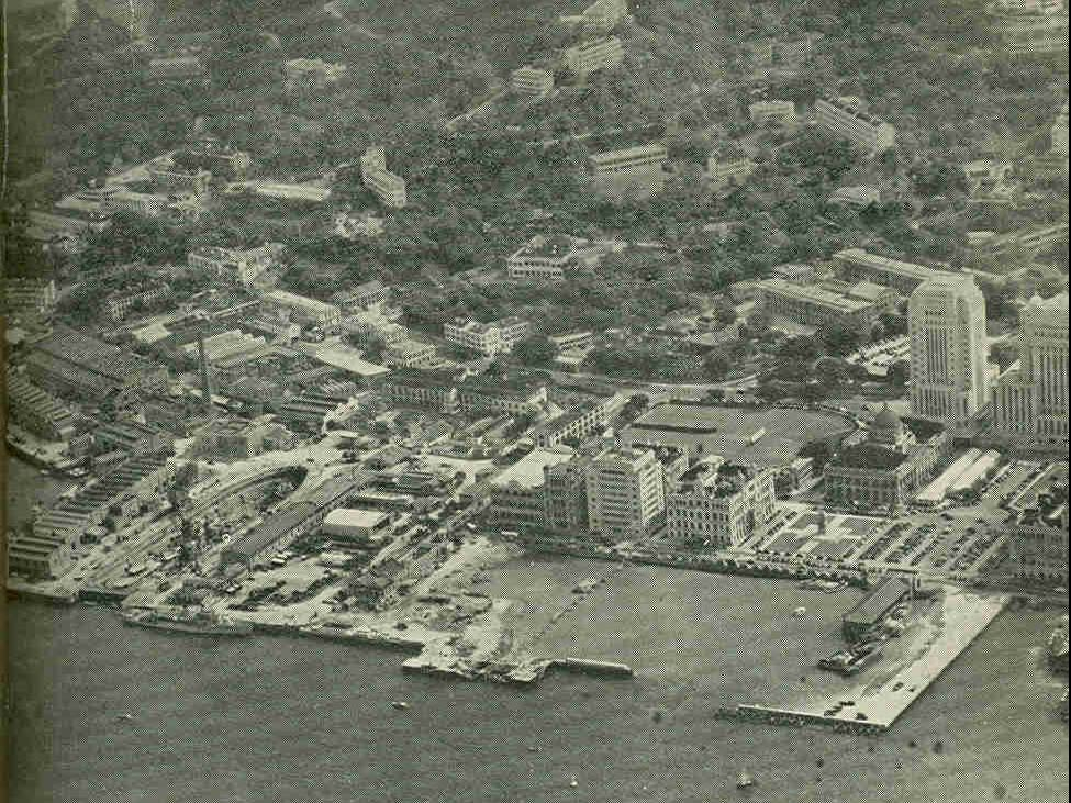 Reclamation of Central,Hong Kong,in 1953 中文（香港）: 1953年的香港中環填海工程